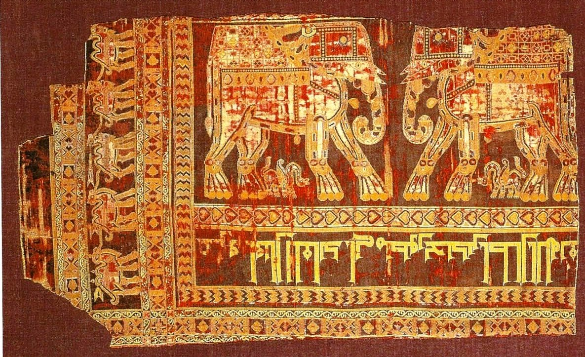 One fascinating Persian Textile is the Shroud of Saint-Josse (English Joyce). It is a Persian Sasanian Silk Samite cloth dating to Circa 960. I get that date because the cloth is inscribed “blessing and happiness be upon Chief Abû Mansûr Bukhtekin, may Allah extend his years”. We know that Abû Mansûr Bukhtekin was a Turkish general aka Emir who was executed for rebellion in 961.